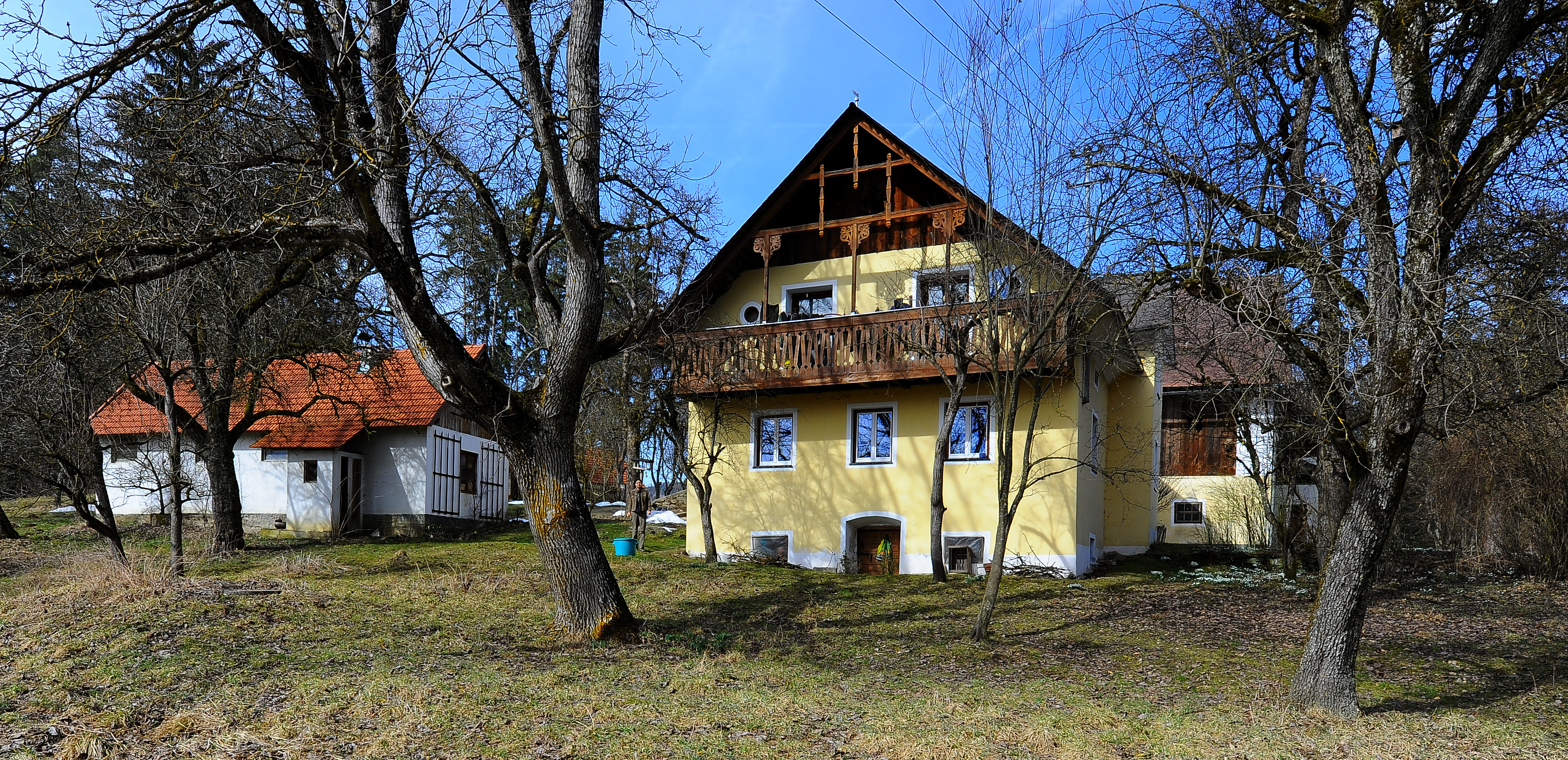 Farmhouse “vulgo WENDITZER” on the Glantalstrasse #99 at Tentschach #10, situated in the 14th district “Woelfnitz” of the Carinthian capital Klagenfurt on the Lake Woerth, Carinthia, Austria